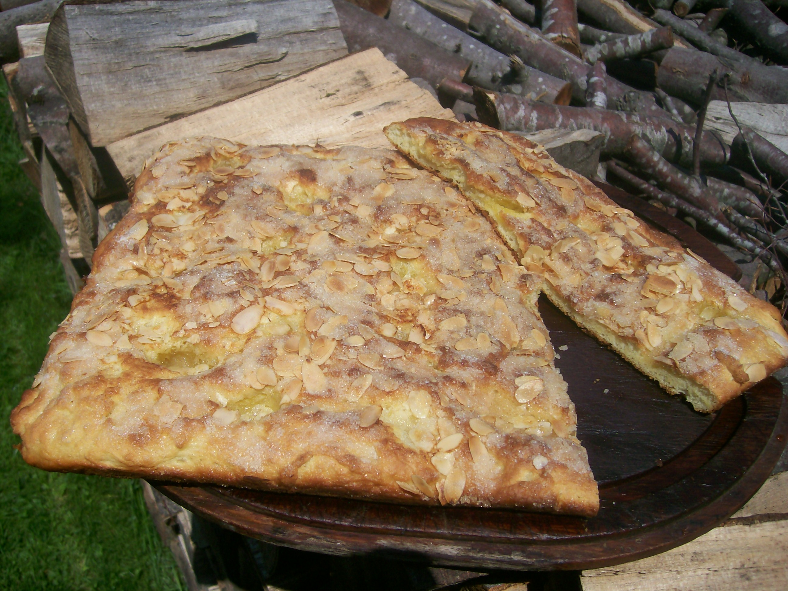 Buttercake